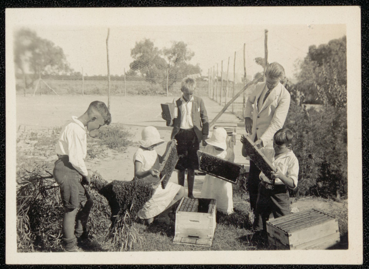 Title: Curlwaa Public School - beekeeping, searching for Queen cells. The swarm can be seen in the left foreground. Dated: c.1940 Digital ID: 15051_a047_003661 Series: NRS 15051 Schools Photographic Collection Rights: No known copyright restrictions We'd love to hear from you if you use our photos/documents. Many other photos in our collection are available to view and browse on our website using Photo Investigator.